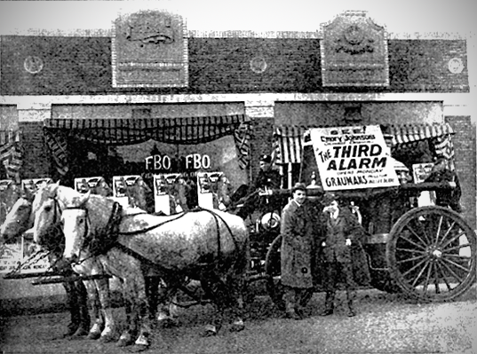 Emory Johnson, director, and Hyatt Daab, F.B.O., with fire team that exploited "The Third Alarm" at Grauman"s Los Angels. The middle horse works in the picture.